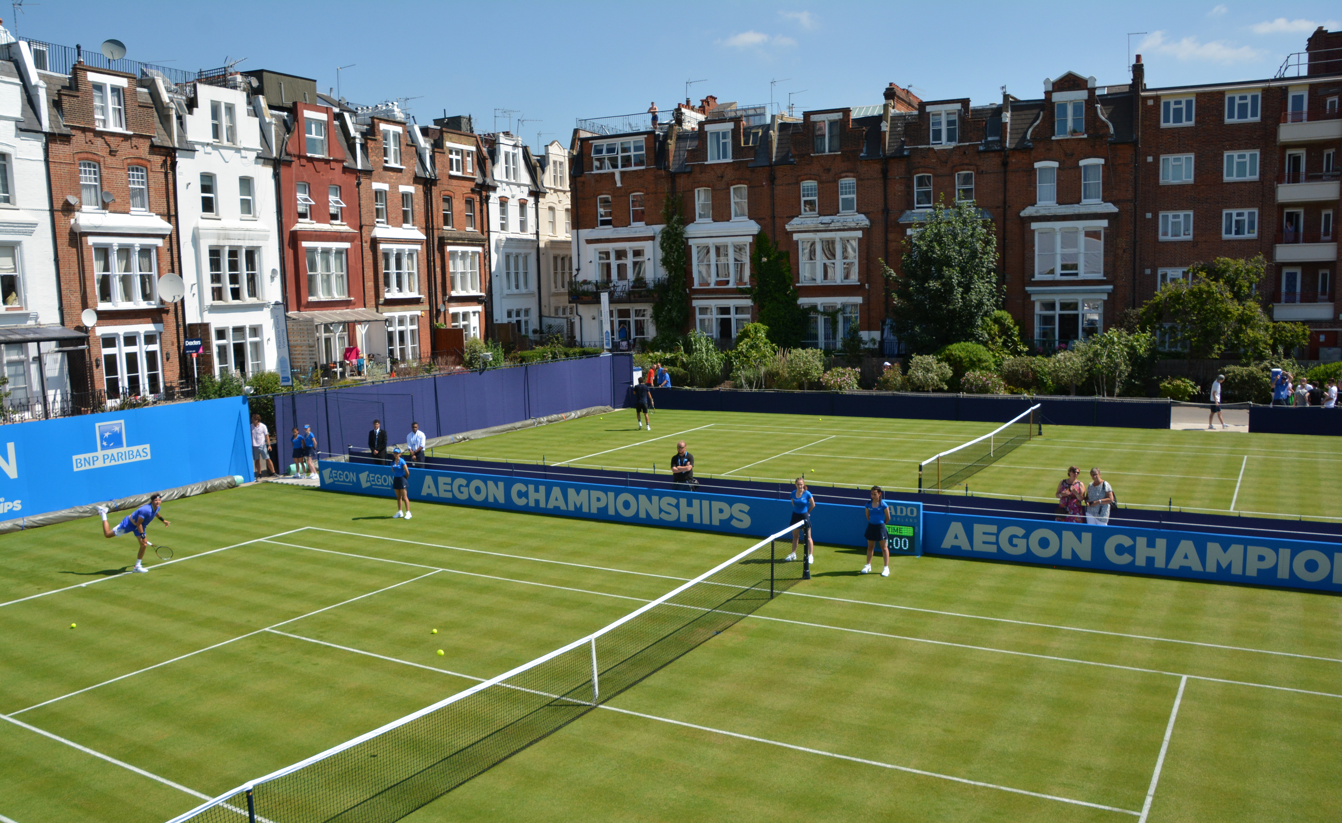 Court 5 was used for qualifying matches.